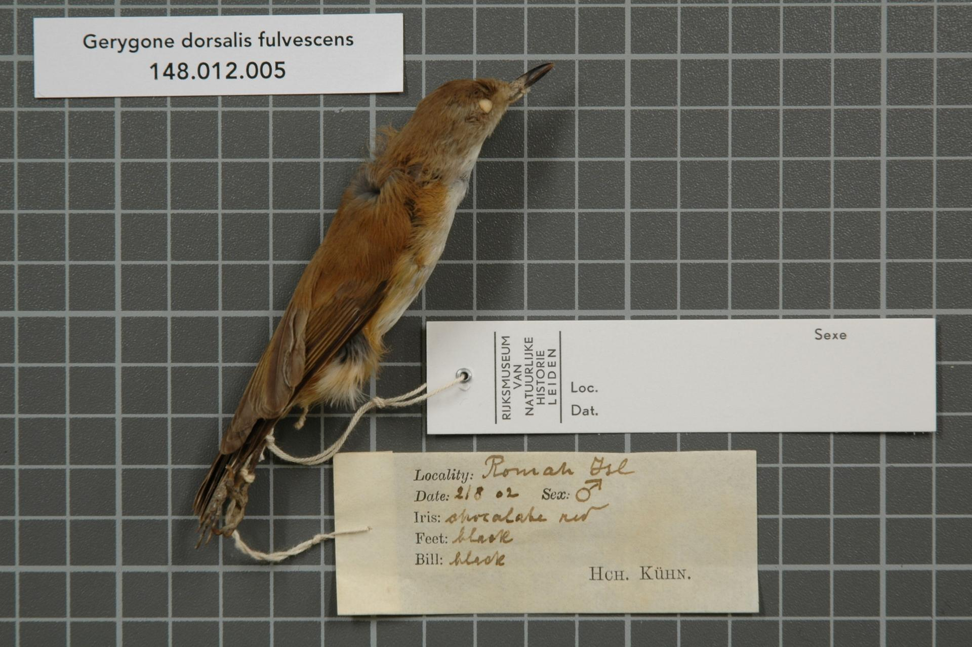 Gerygone dorsalis fulvescens Meyer, 1885